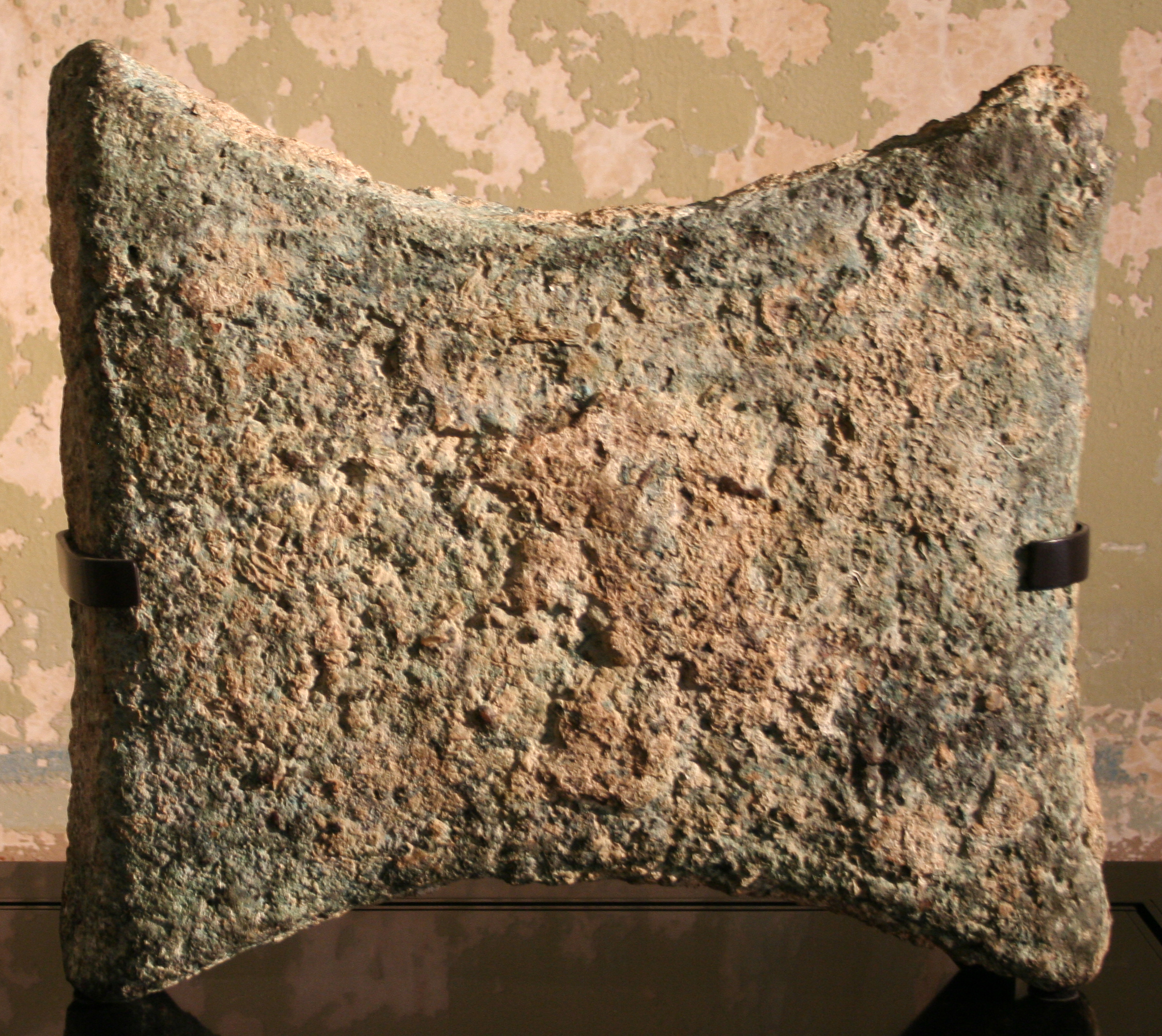 Museum für Vor- und Frühgeschichte (Museum of prehistory and early history), Berlin